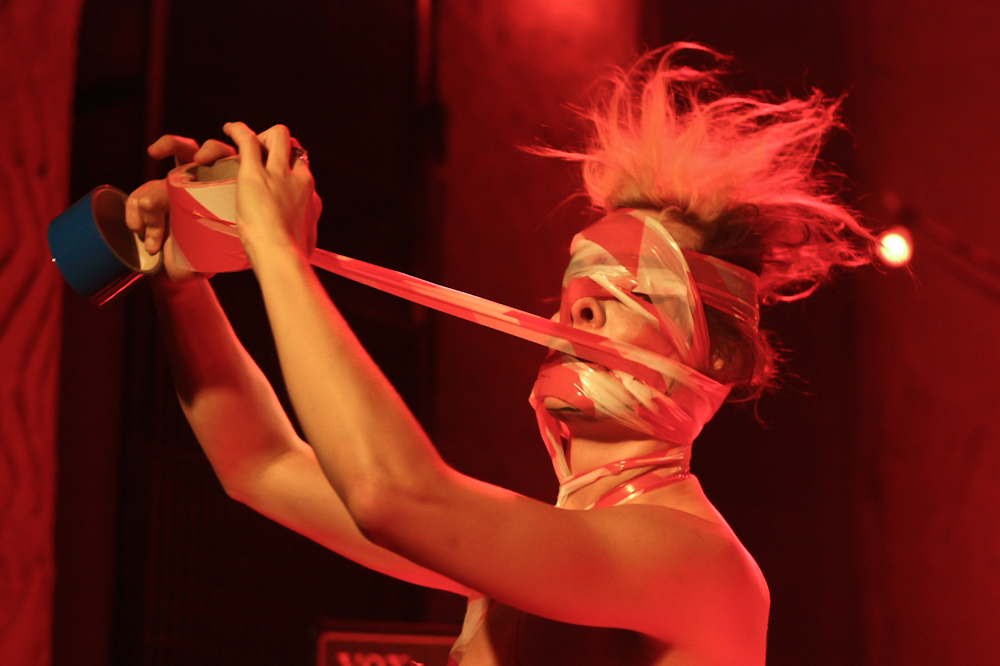 Bonaparte (band)